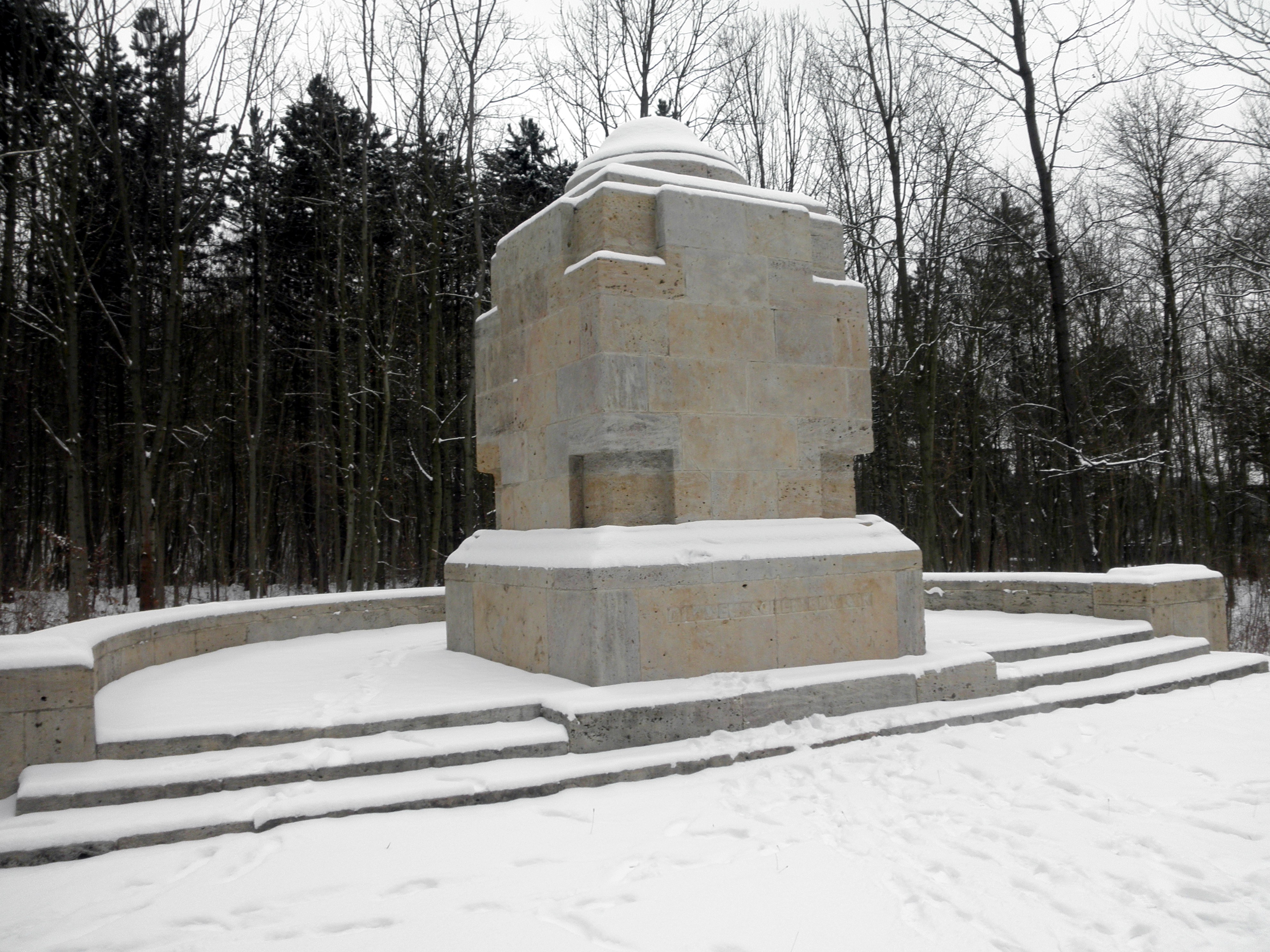 Blinkerdenkmal (War memorial) in Jena in Thuringia